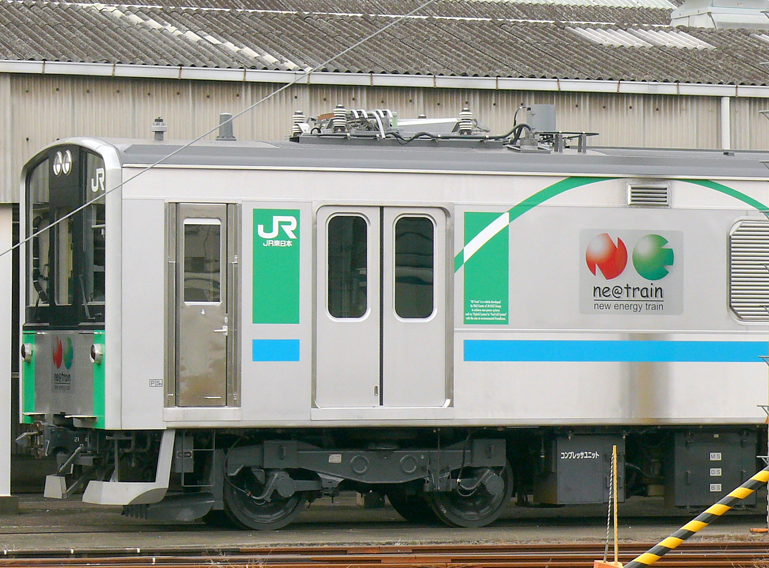 JR East E995-1 Train.(Japan).